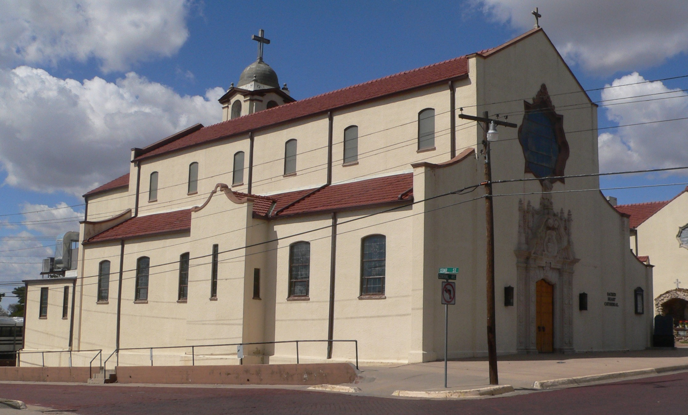 Sacred Heart Cathedral on Central Avenue in Dodge City, Kansas; seen from the southeast.